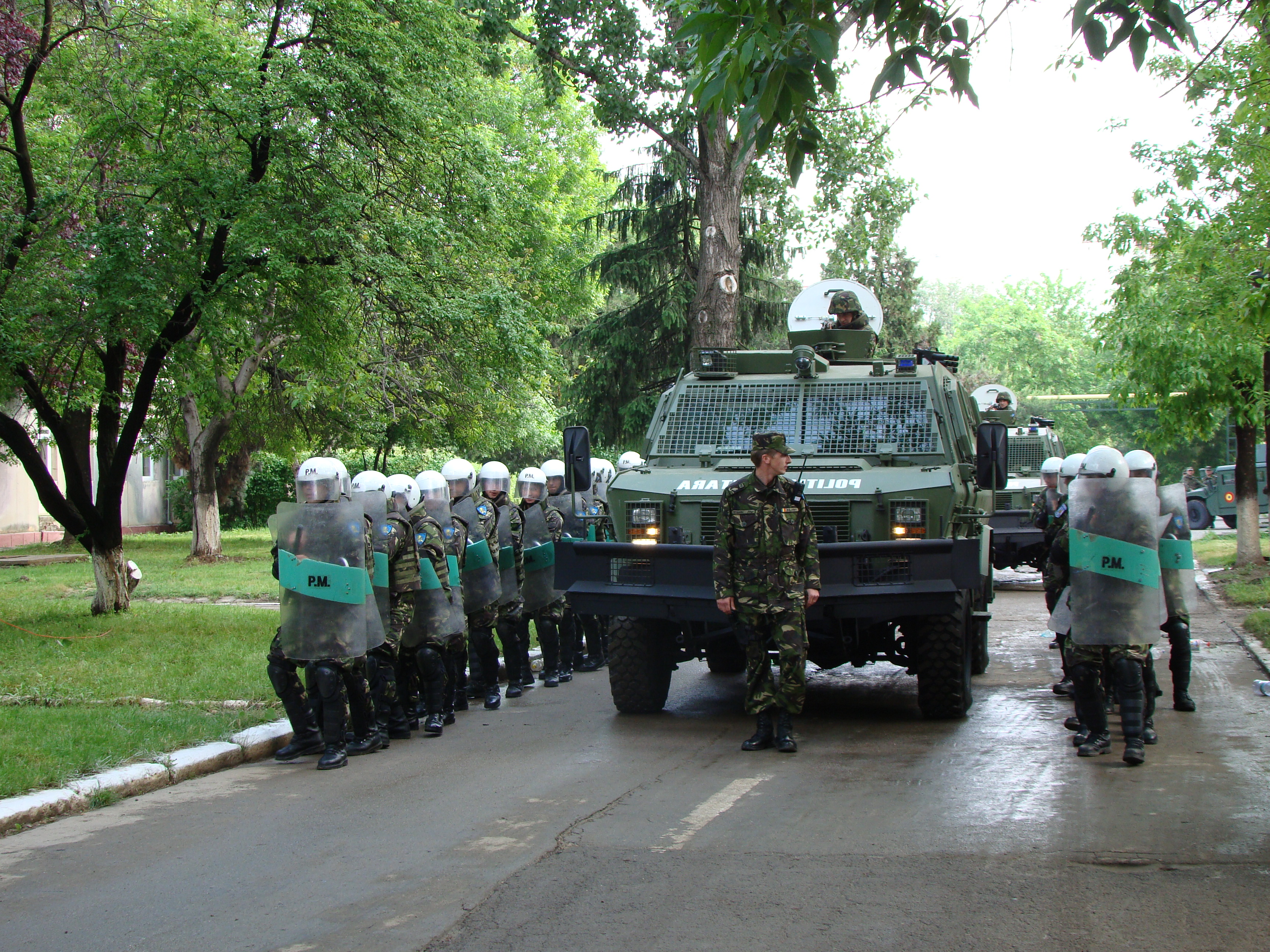 Wolf vehicles in service of the 265 Military Police Battalion of the Romanian Land Forces.